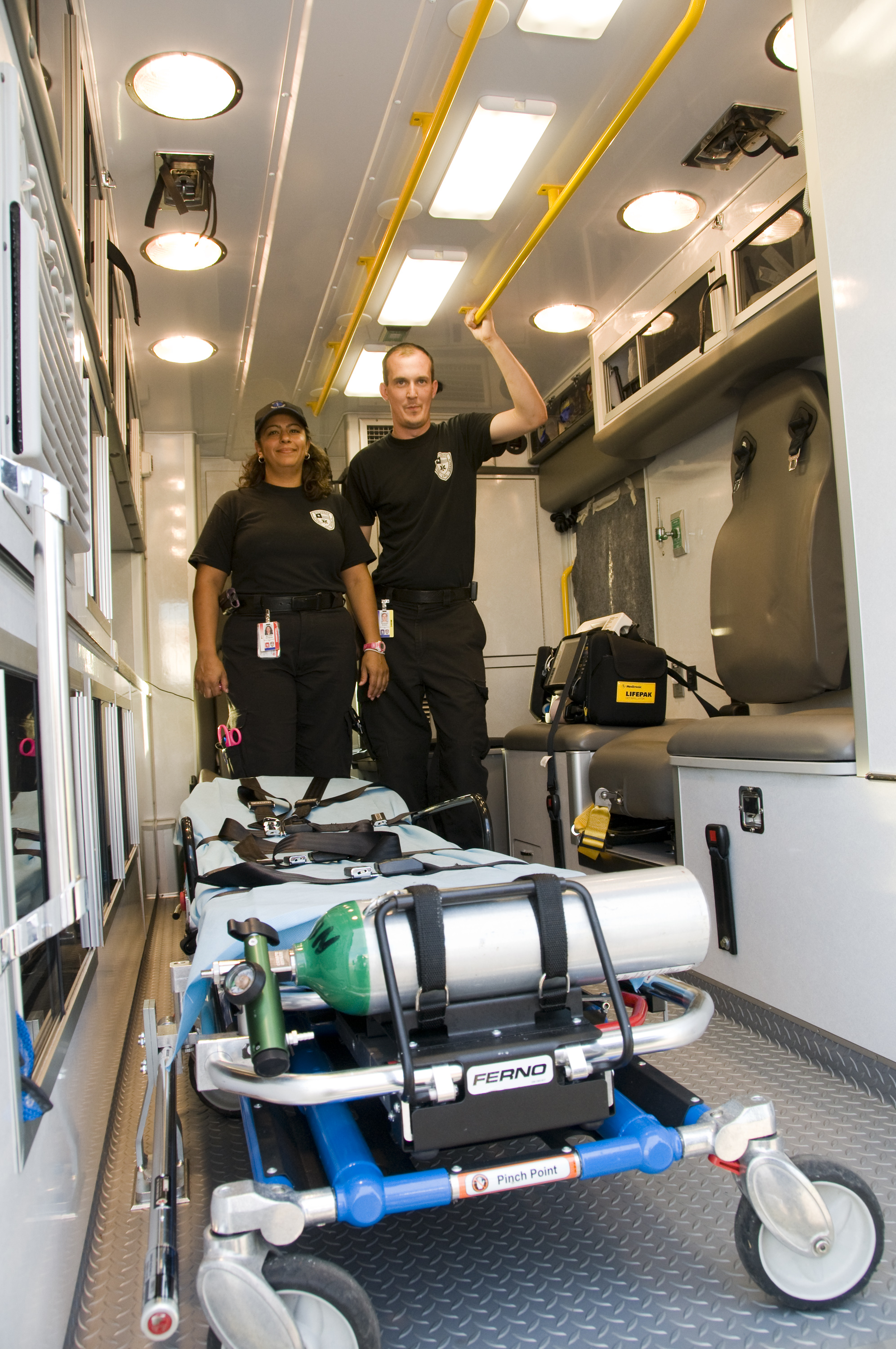 Beeville, TX, September9, 2008 -- Paramedics from the San Antonia area stand in their ambulance waiting for their destination assignment in a staging area in Beeville, TX. Hundreds of buses and other transportation vehicles are sitting at a staging area in Beeville, TX in anticipation of Hurricane Ike's landfall. FEMA is working with the State of Texas to provide adequate transportation assistance to residents who may need to evacuate from their homes. Photo by Patsy Lynch/FEMA